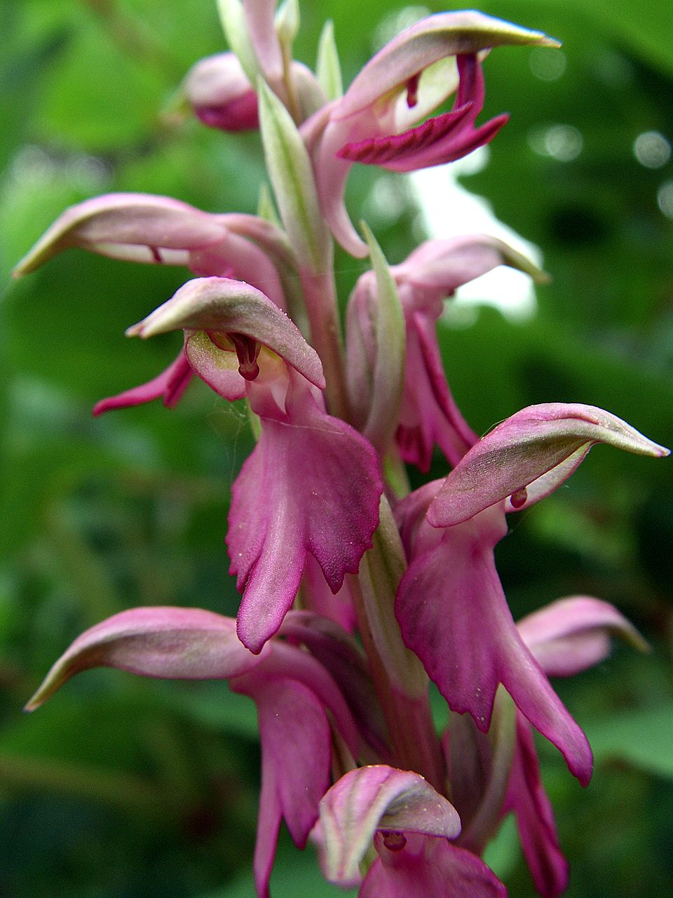 Orchis sancta